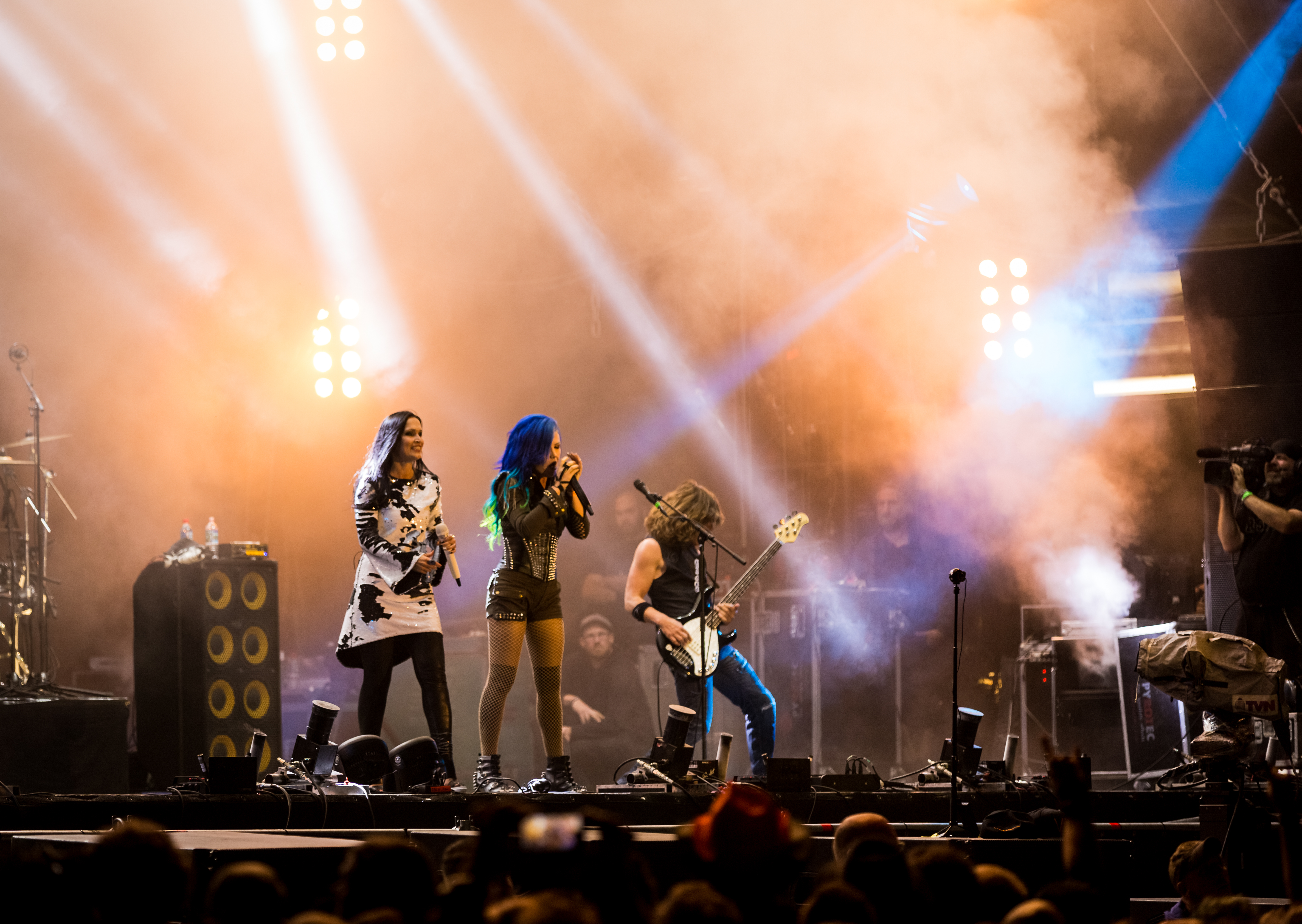 Tarja with Alissa White-Gluz from Arch Enemy live at Wacken Open Air 2016